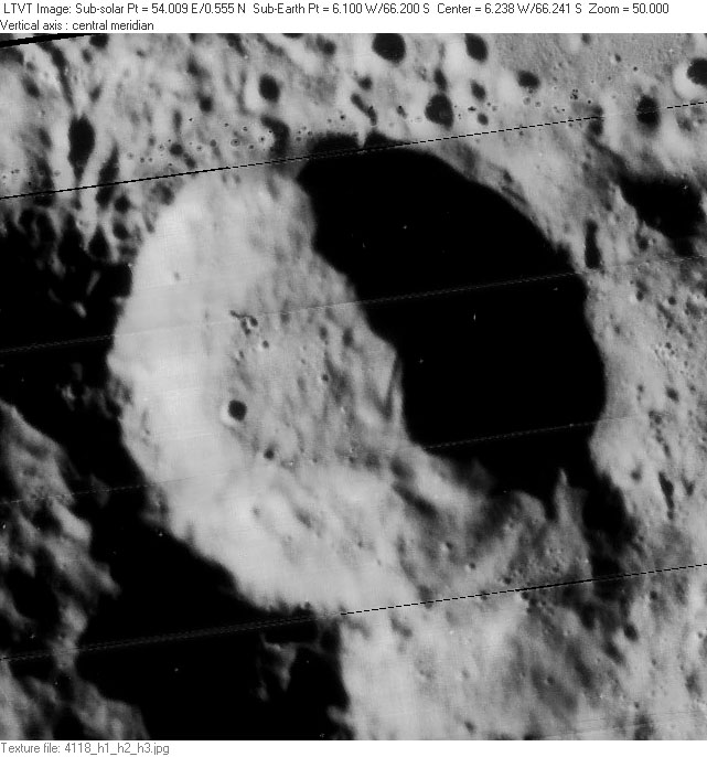 Crater Cysatus. Detail from Lunar Orbiter IV-118H. High resolution scans from the USGS Lunar Orbiter Digitization Project remapped to a north-up aerial view by LTVT.